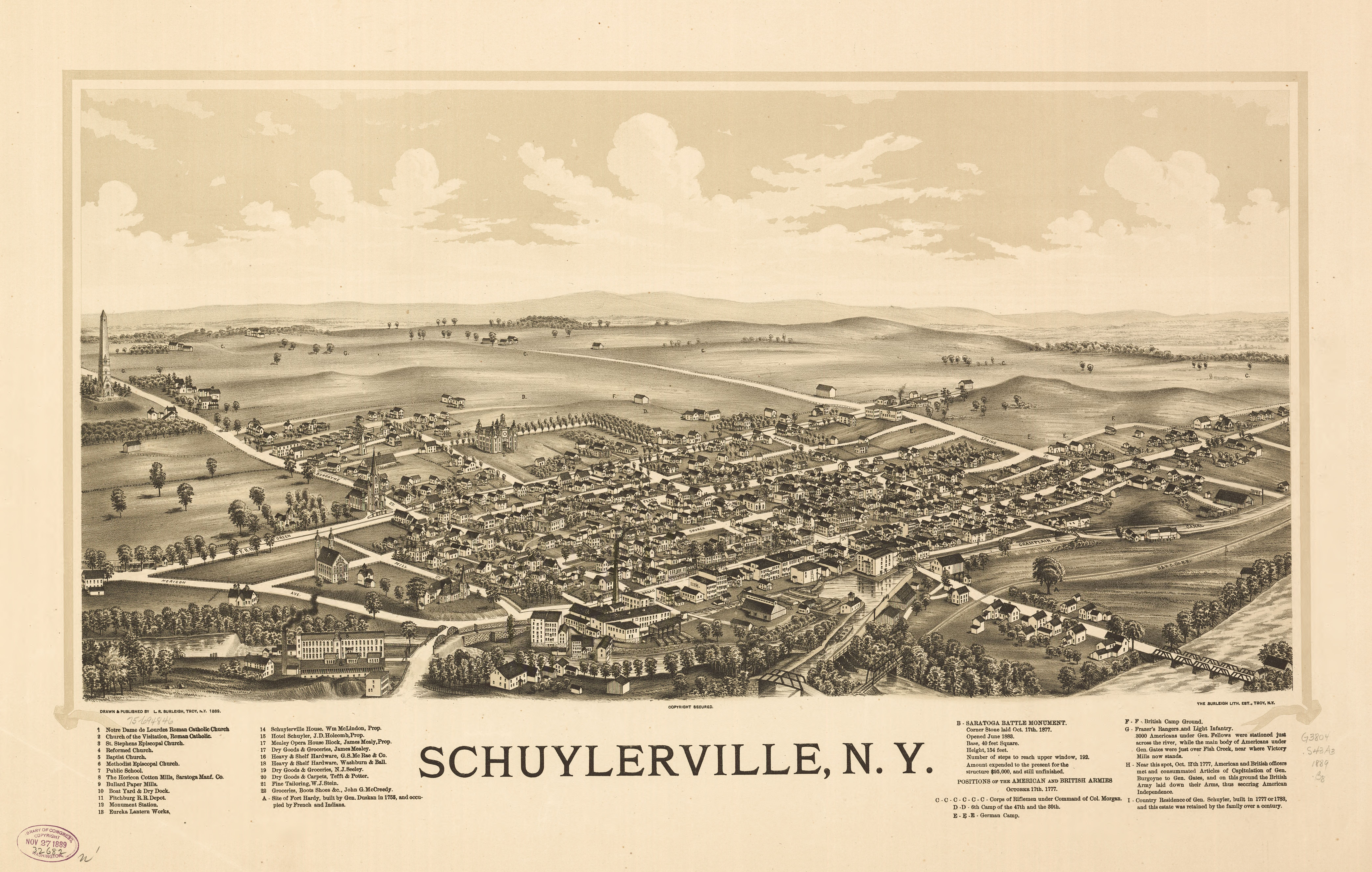 Perspective map not drawn to scale. Bird's-eye-view. LC Panoramic maps (2nd ed.), 632 Available also through the Library of Congress Web site as a raster image. Indexed for points of interest. AACR2